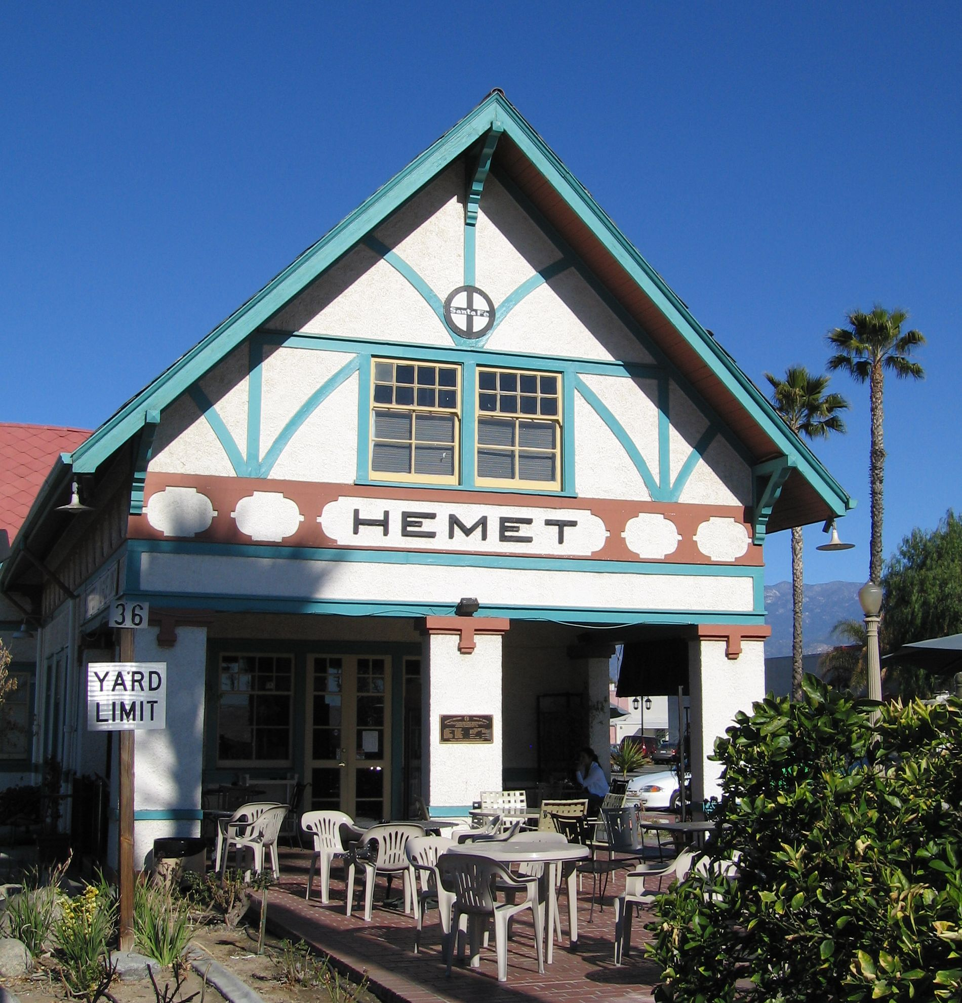 Old Santa Fe depot, Hemet, Riverside County, California. Photo taken 04 Feb 2007 by Takwish with a Canon PowerShot S70.